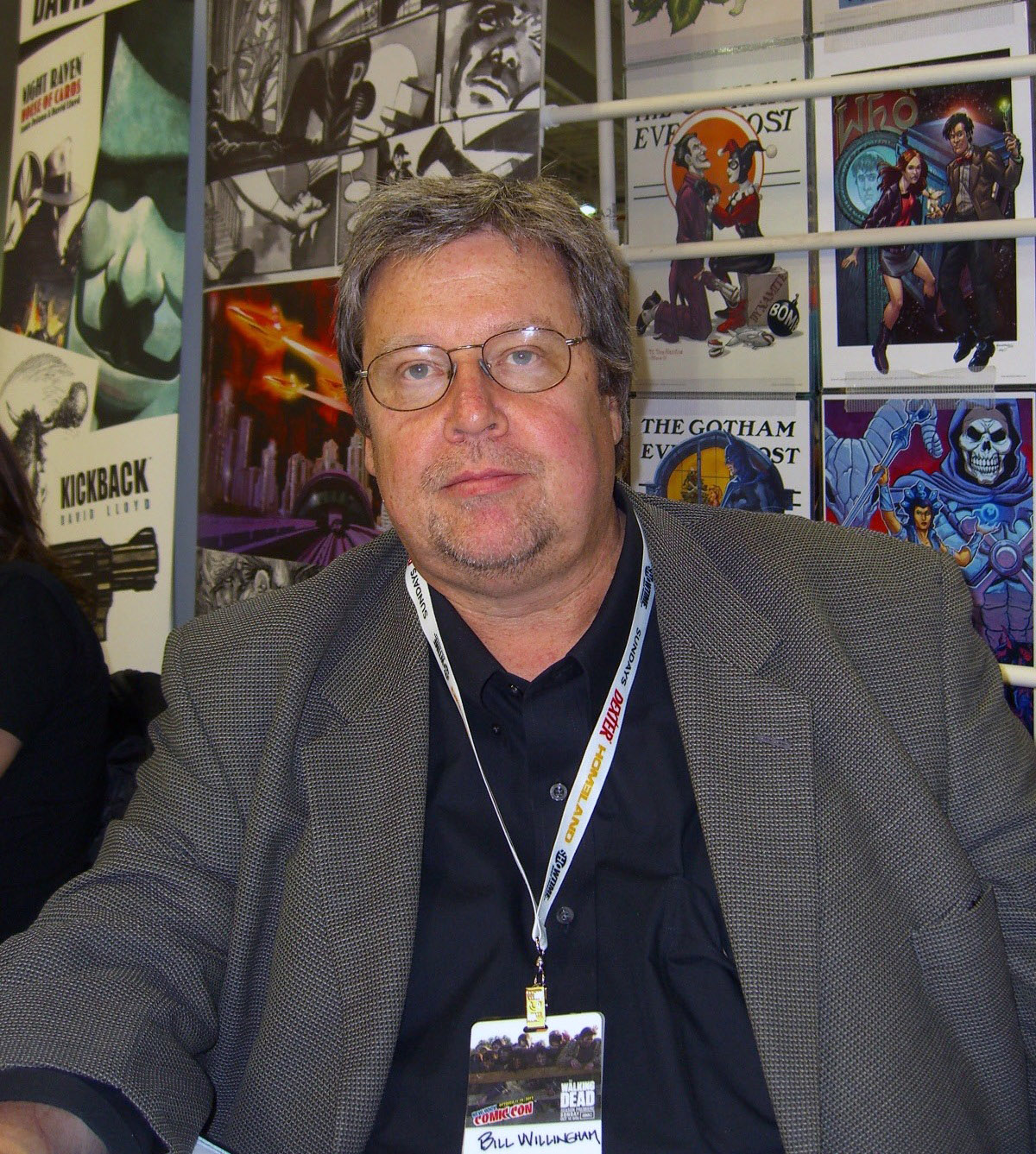 Comics creator Bill Willingham on Day 3 of the 2012 New York Comic Con, Saturday October 13, 2012 at the Jacob K. Javits Convention Center in Manhattan. This photo was created by Luigi Novi. It is not in the public domain, and use of this file outside of the licensing terms is a copyright violation.